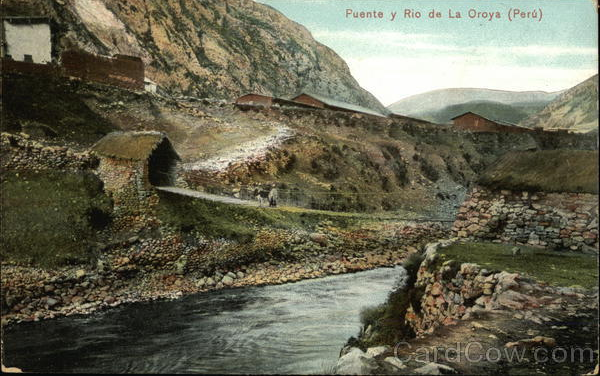 puente colgante de la oroya